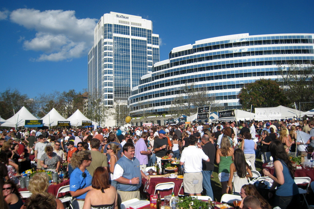 Town Point Wine Festival, in Norfolk, Virginia, United states.